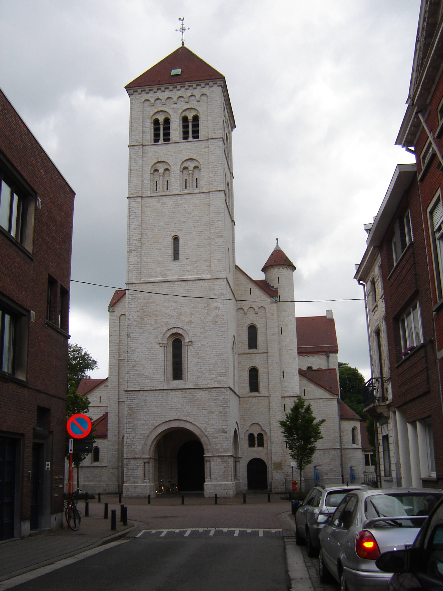 Church of Saint Paul, in Gent, East Flanders, Belgium